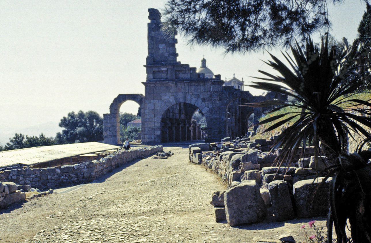 Tindari, prov. Messina, reg. Sicily, Italy: basilica